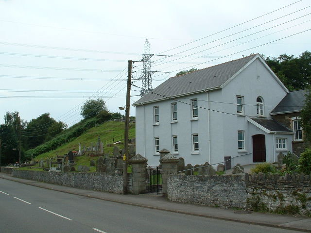 Ebeneezer Chapel. On East of square at western outskirts of Pontneddfechan.